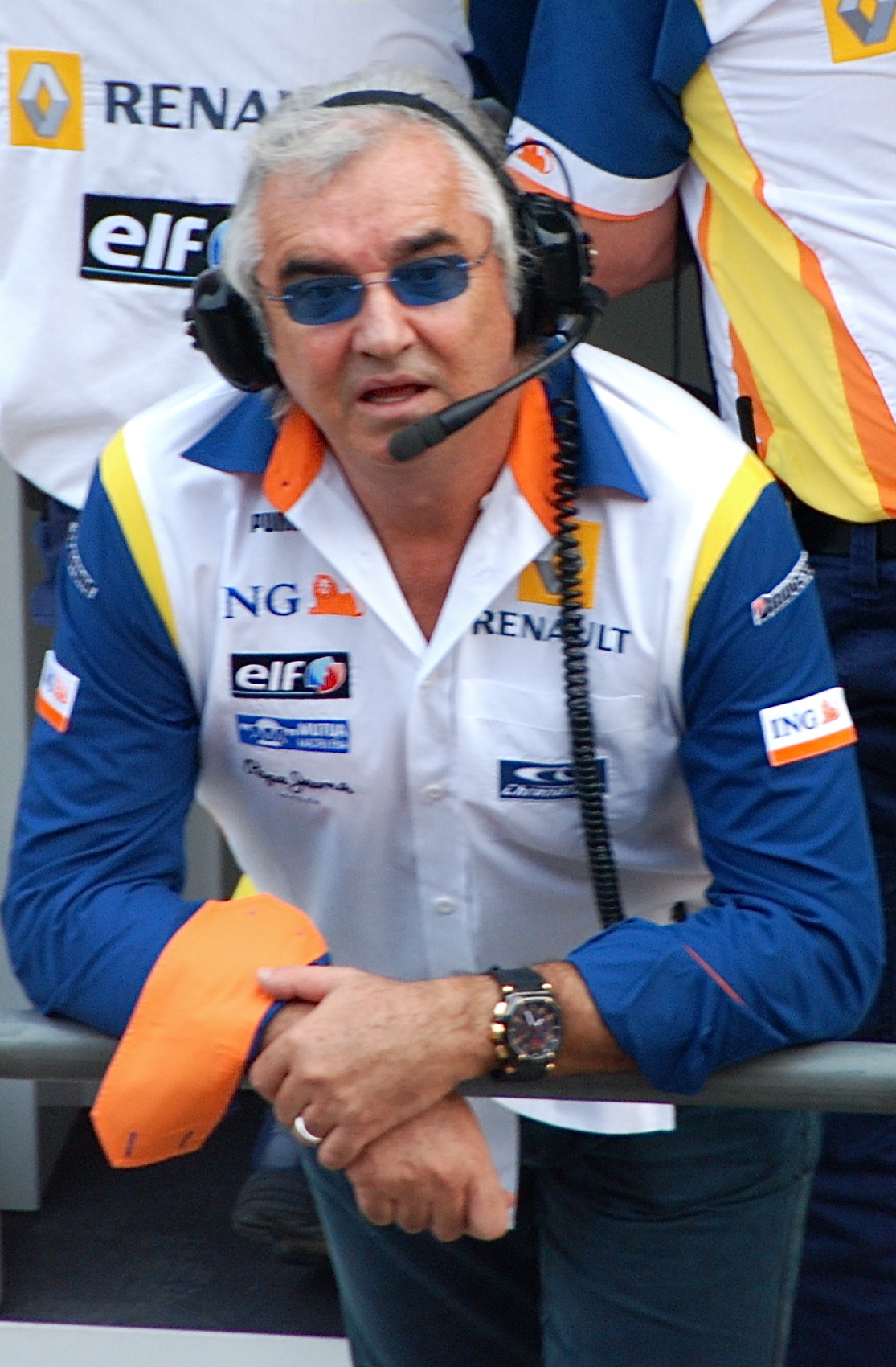 Renault F1 team principal Flavio Briatore at 2008 Chinese Grand Prix